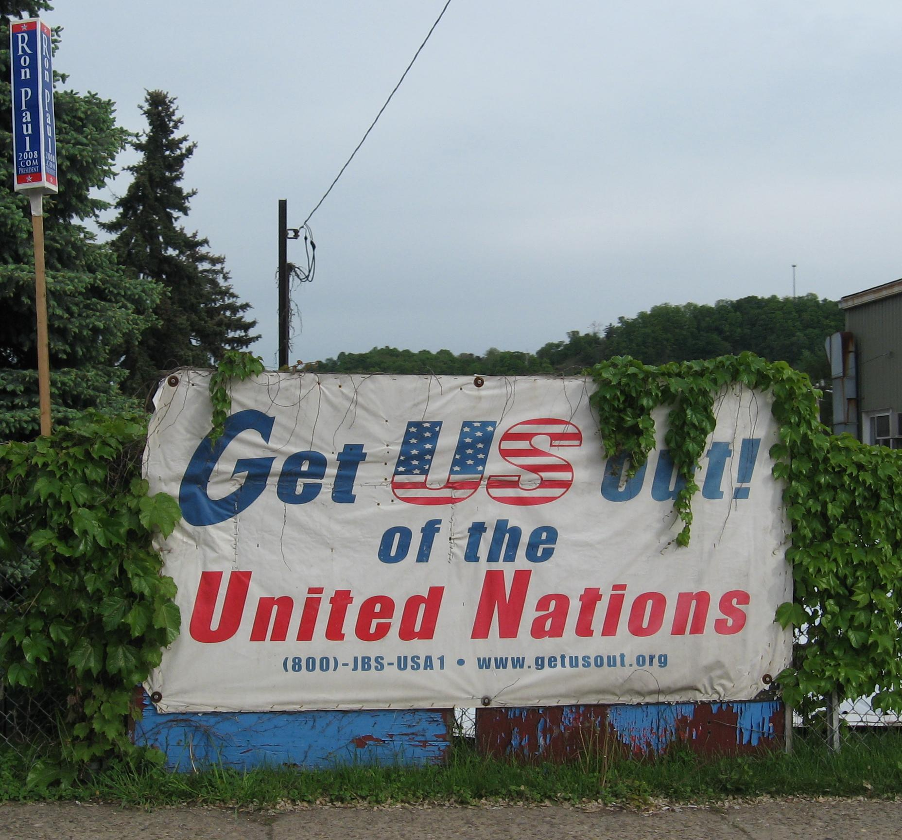 Sign from the John Birch Society advocating US withdrawal from the United Nations , with Ron Paul sign in background, Pittsburgh